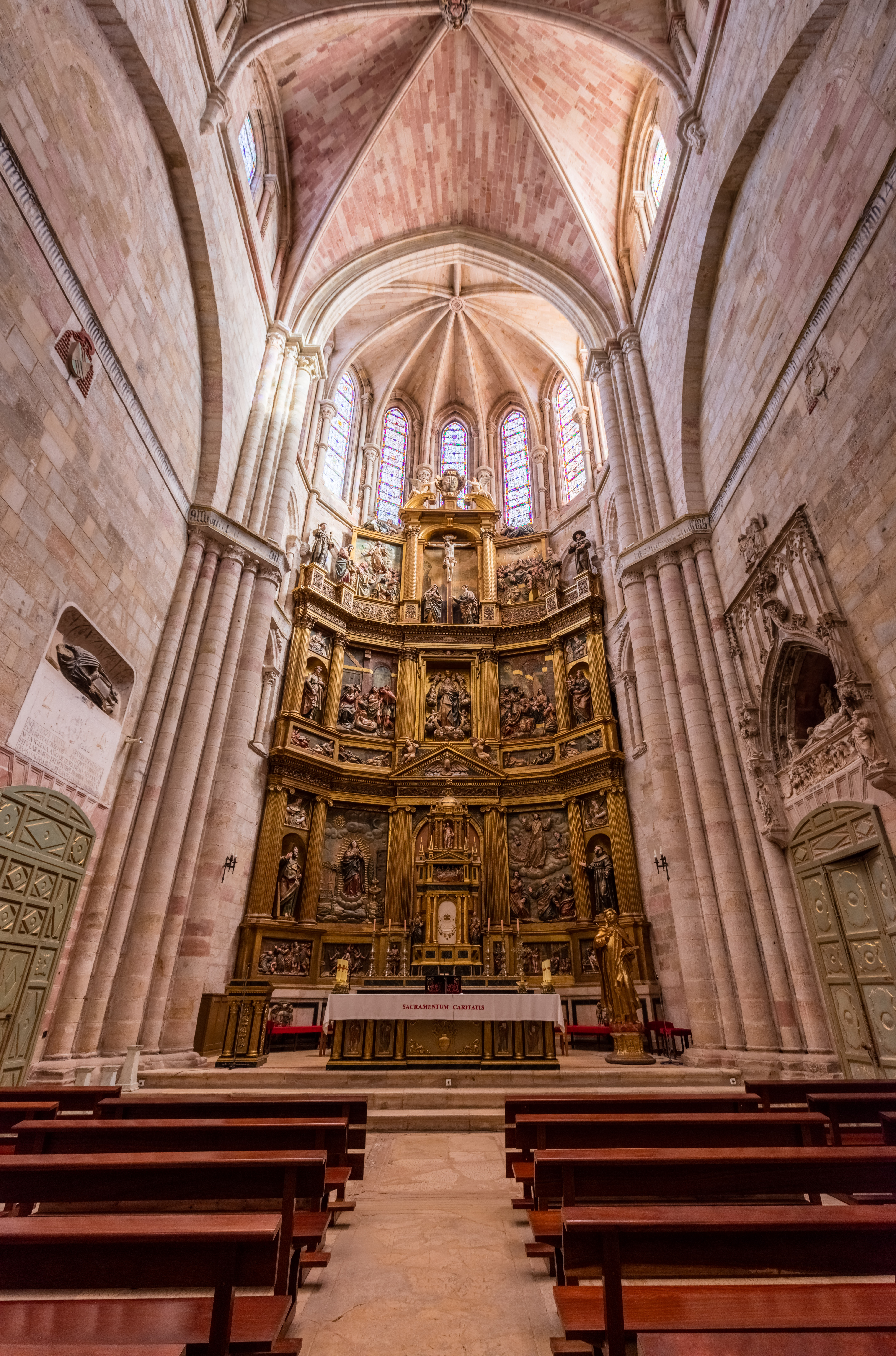 Cathedral of Santa María, Sigüenza, Spain